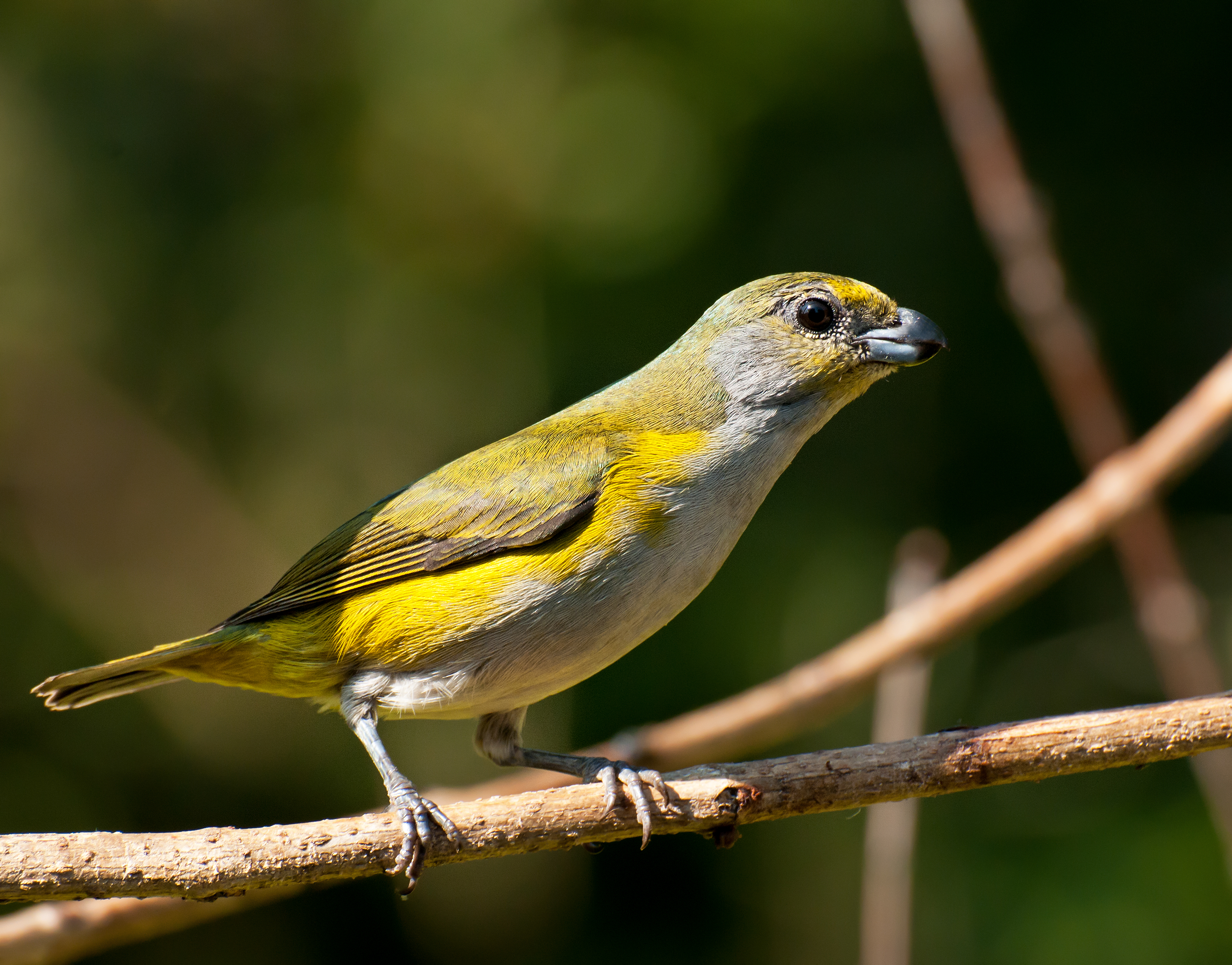 A female Green-chinned Euphonia in Vale do Ribeira, Registro, São Paulo, Brazil.